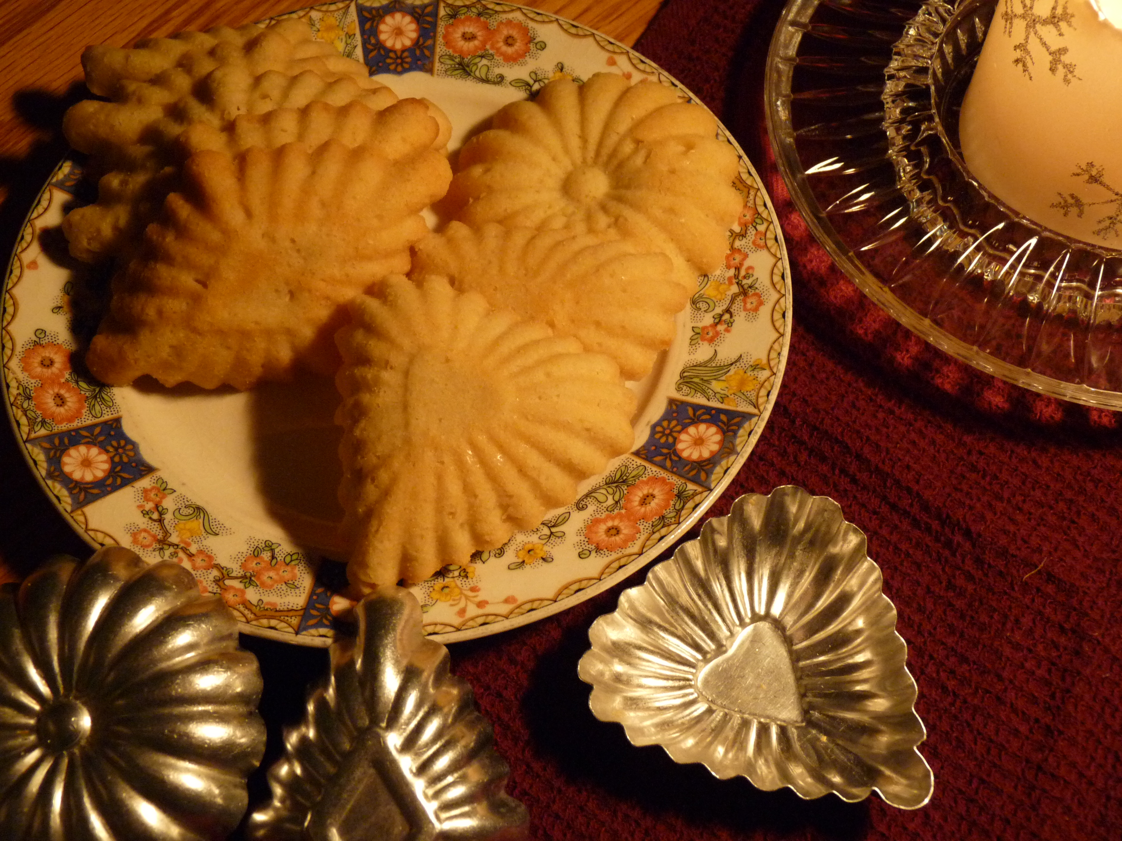 Sandbakelse, Norwegian sugar cookies, with the tins in which they're made.